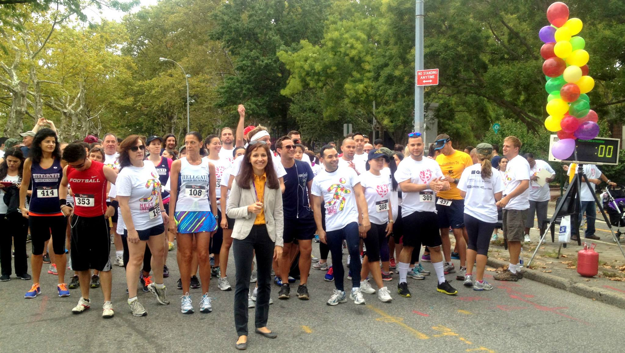 Simotas kicks off QSAC's annual 5K race for Autism.